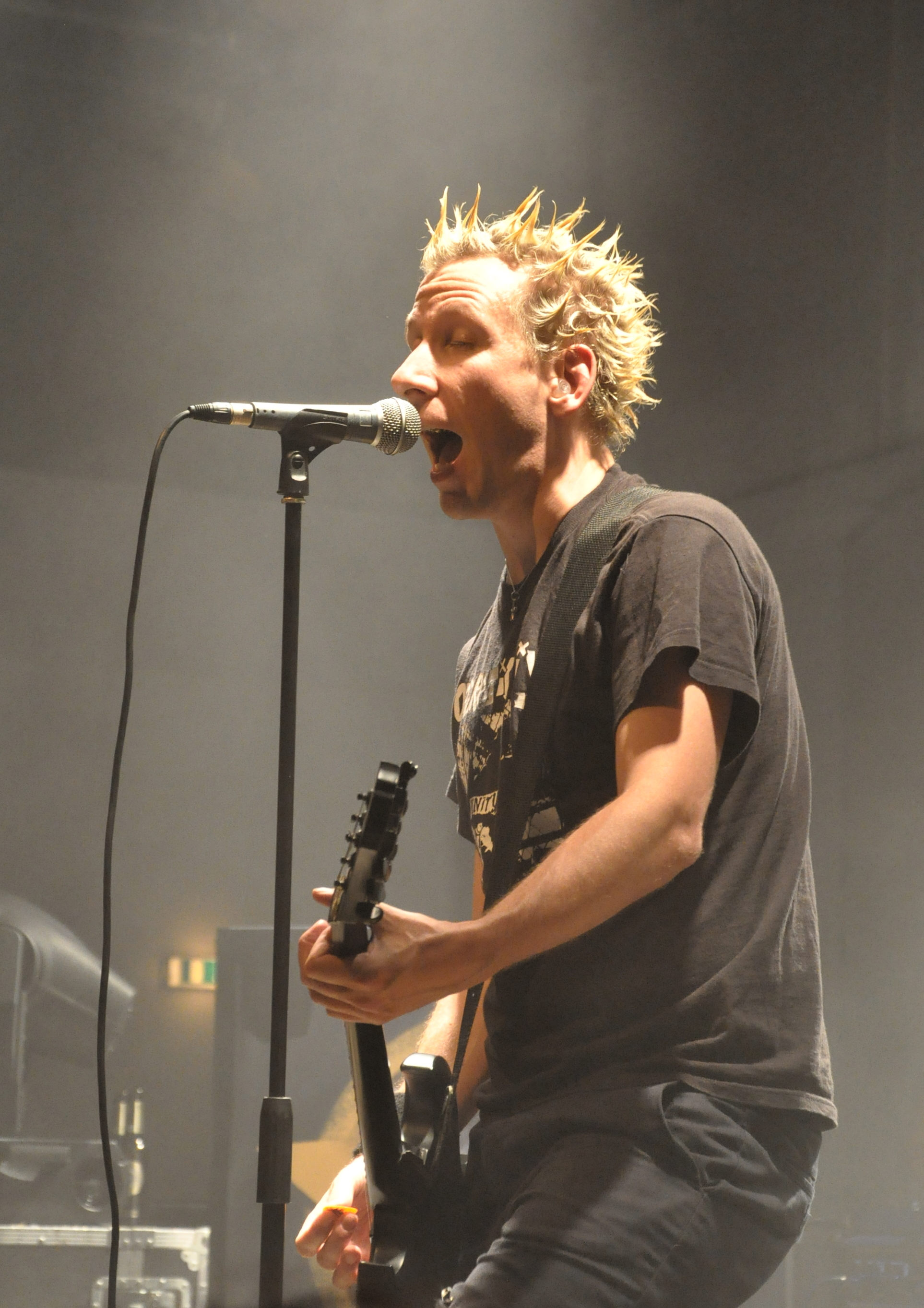 Joshi of ZSK at Kein Bock auf Nazis Festival, Düsseldorf 2013